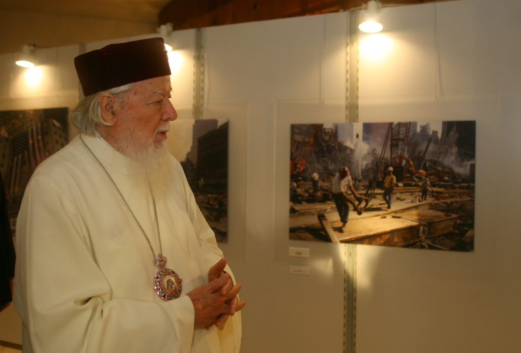 Patriarch Teoctist of the Romanian Orthodox Church visits the photo exhibit "Images of 9/11" by Joel Meyerowitz at the Romanian National Theater on Sept. 11, 2006. Source Public Diplomacy Office of the United States Embassy in Romania, Retrieved 2007-10-29.